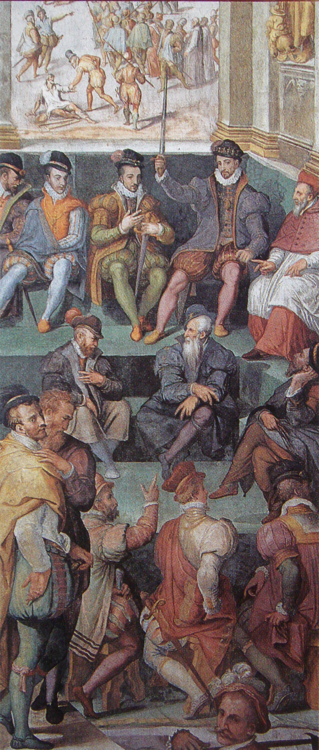 Charles_IX_in_front_of_the_Paris Parliament_on_26_August_1572_attempting_to_justify_the_Saint_Barthelemy_massacre_as_a_response_to_a_Huguenot_plot.